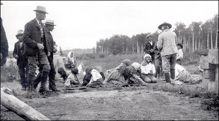 Indians scrambling for candies, English River Post, Ont. [Treaty 9]. Credit: Canada. Dept. of Indian Affairs and Northern Development / Library and Archives Canada / PA-059546. Description page at the Library and Archives Canada